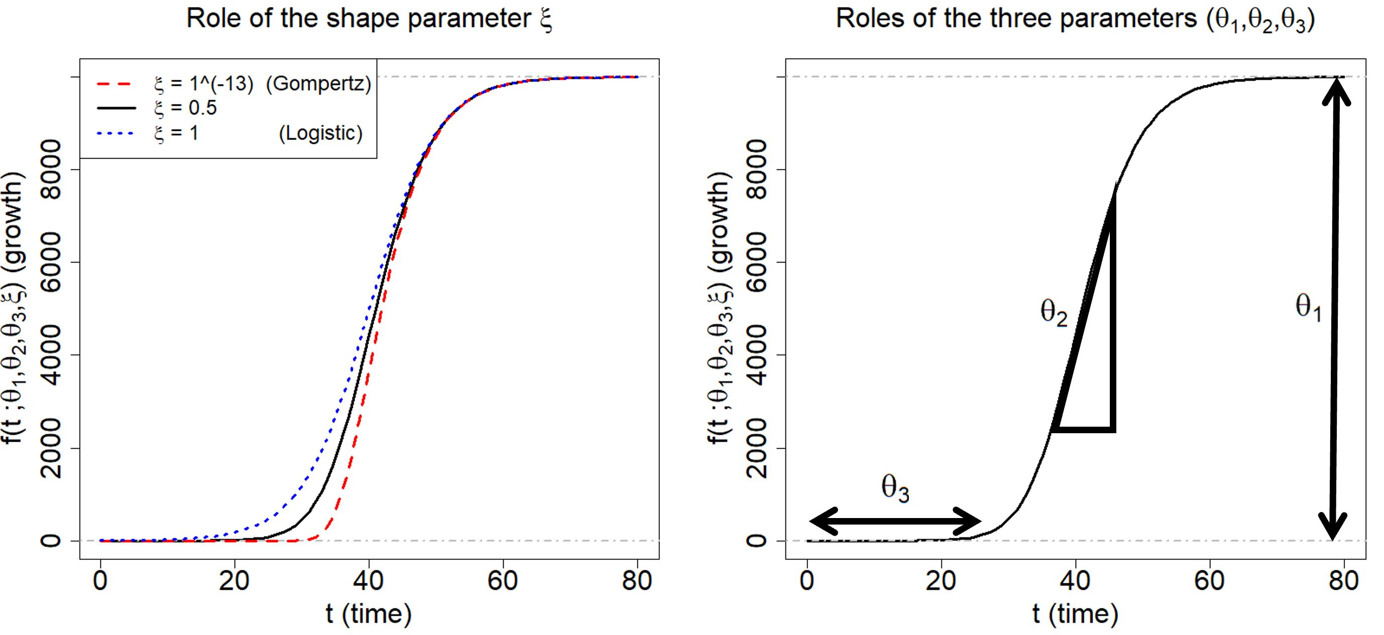 DD